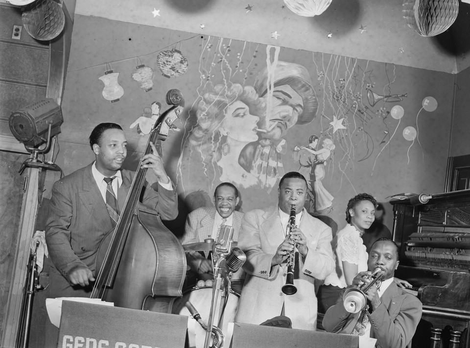 Gene Sedric, Danny Settle, Slick Jones, Mary Lou Williams, and Lincoln Mills, The Place, New York, N.Y., ca. July 1946 (Photograph by William P. Gottlieb)